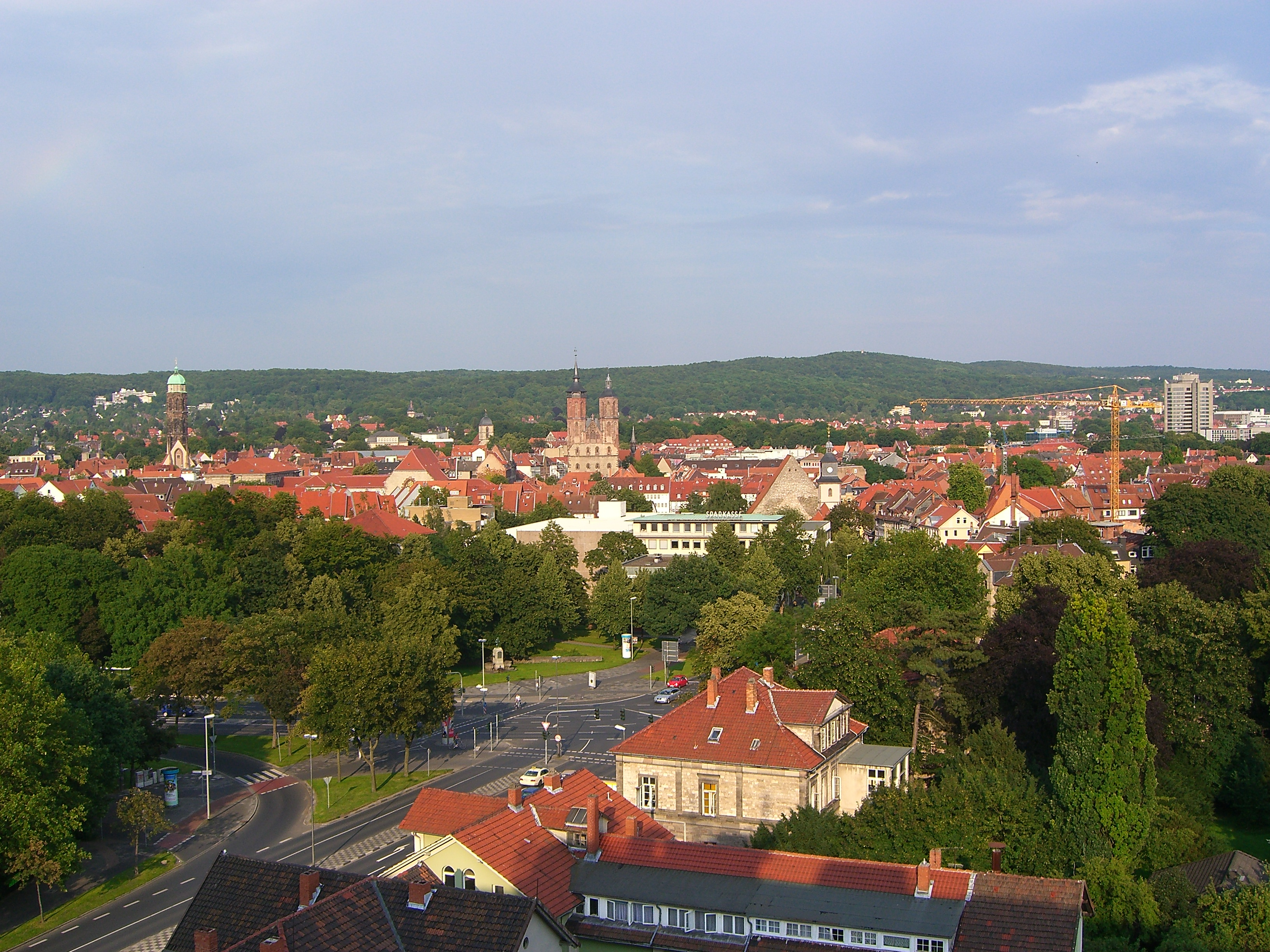 View of Göttingen from the west.